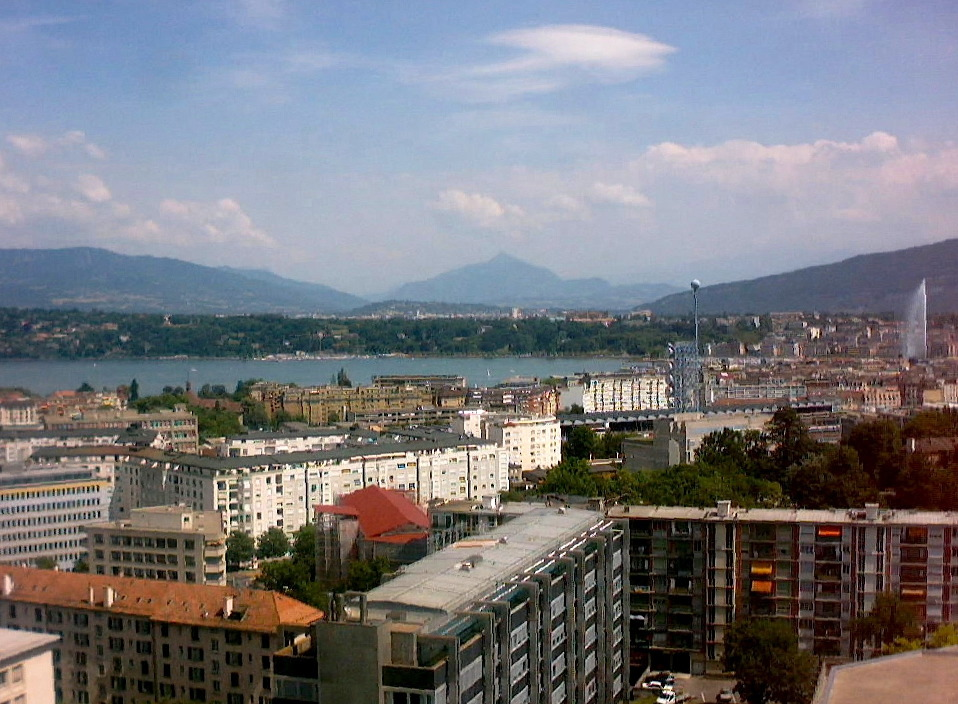 View of Le Môle from the International Telecommunications Union tower Geneva, Switzerland on a typically hazy June day, with Lake Geneva in the middle distance. If it were not for the haze, Mont Blanc would dominate the background.